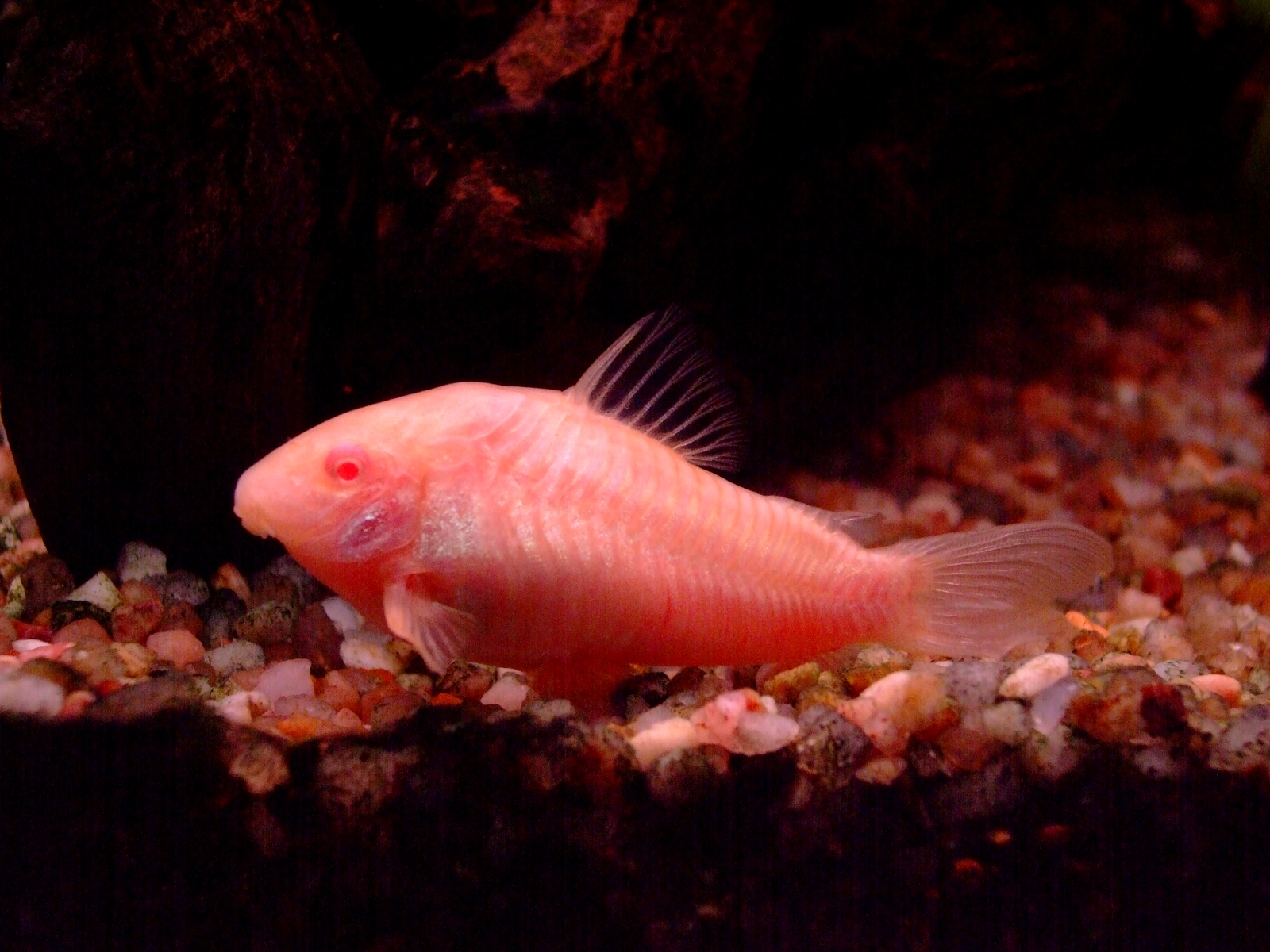 Corydoras aeneus